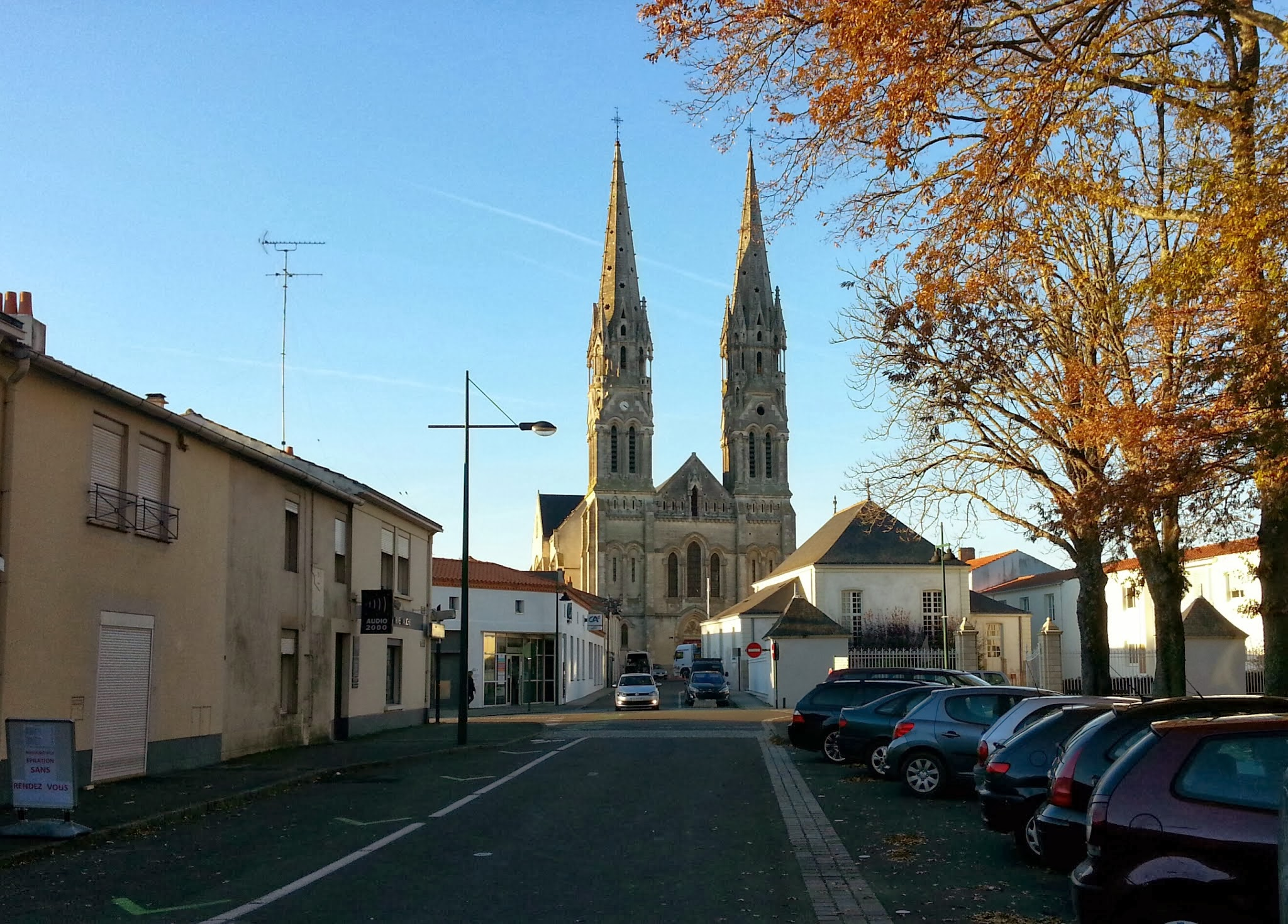 Machecoul